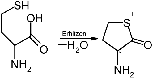 Formation of 3-Aminothiolane-2-one from Homocysteine